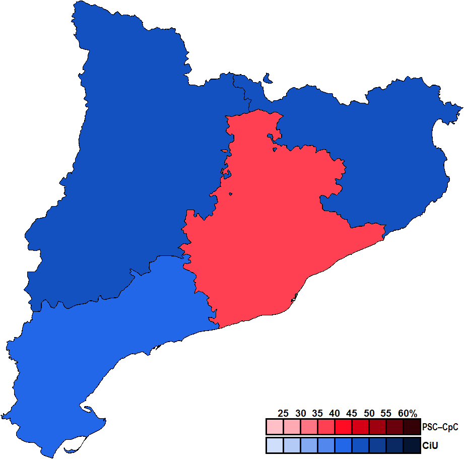 Provincial results for the 1999 Catalan regional election.